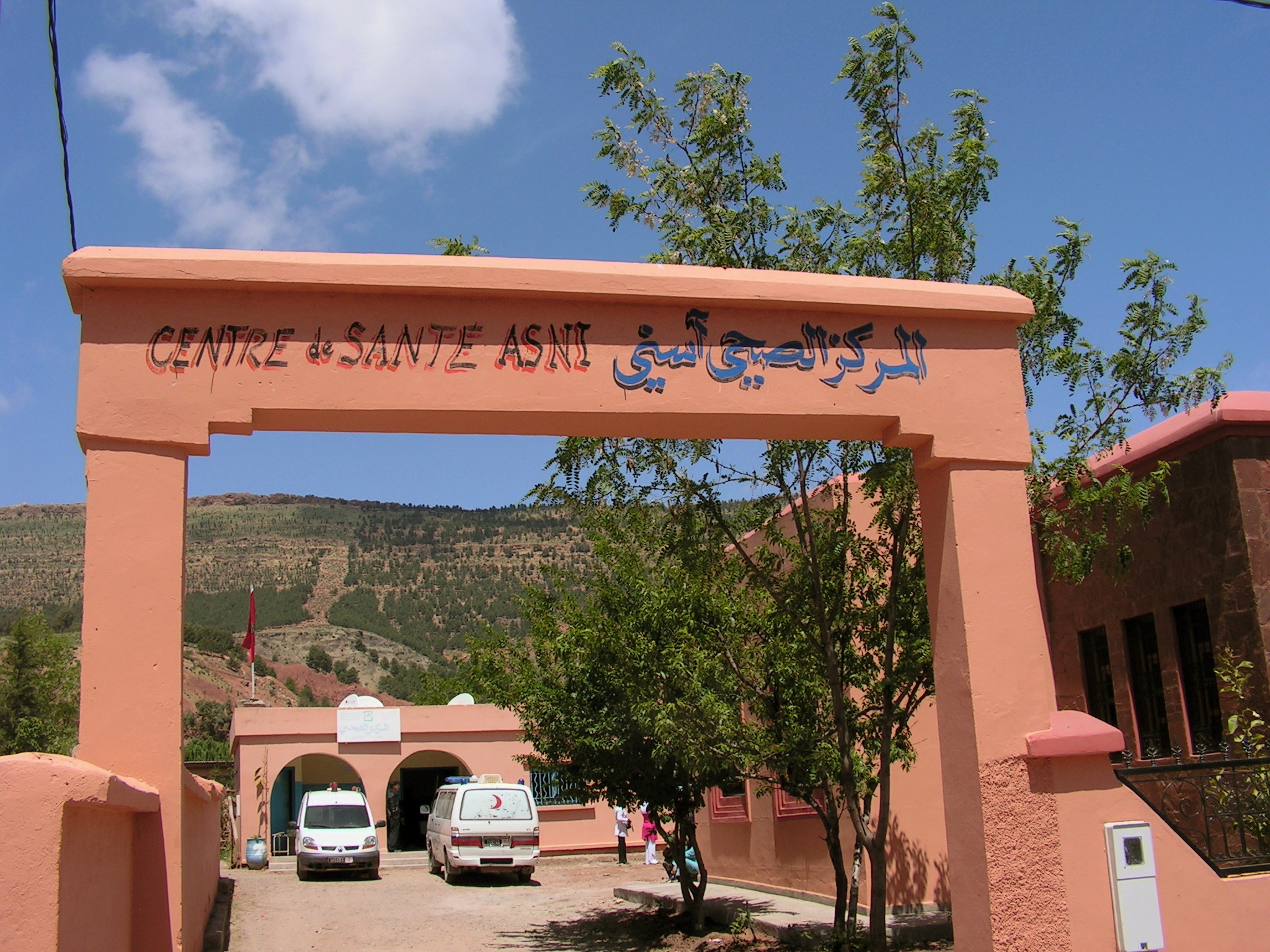 Health centre at Asni (Morocco)